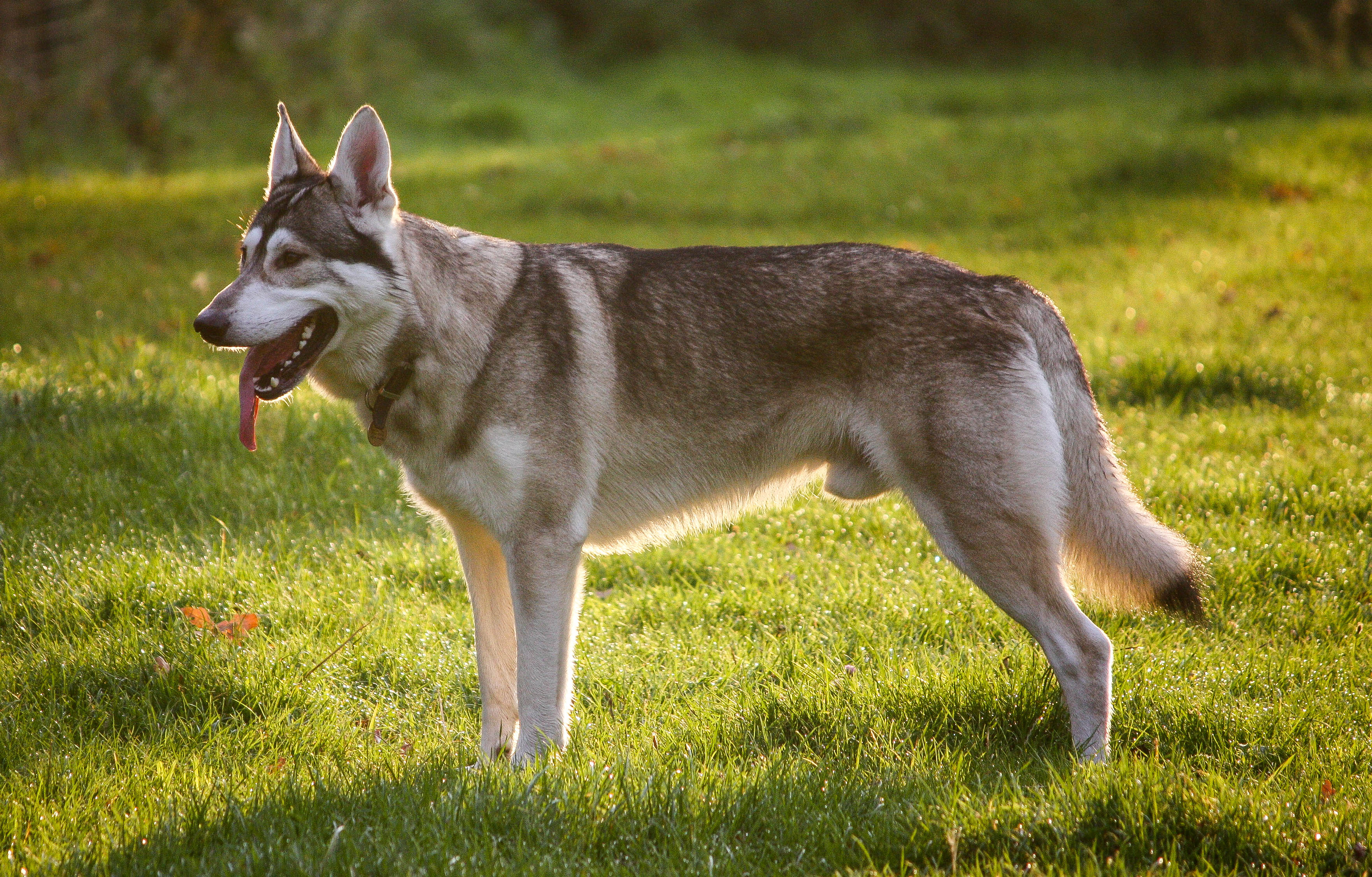 Northern Inuit Dog Mahlek Candle In The Wind a.k.a. Zeus